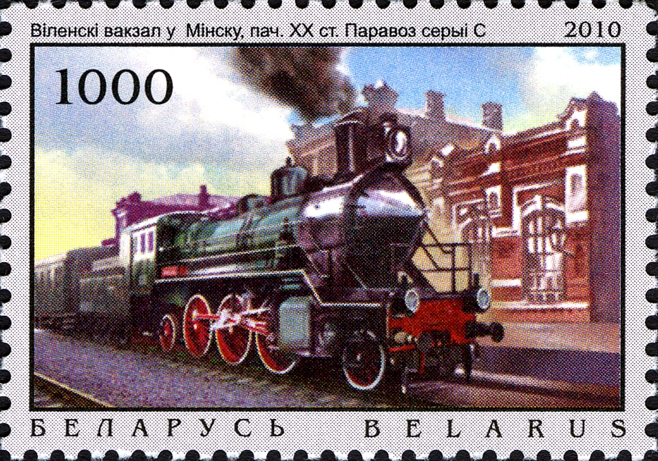 Stamp of Belarus